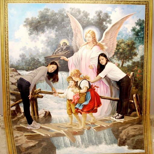 Музей оптических иллюзий Trick Eye в Пусане (Южная Корея)